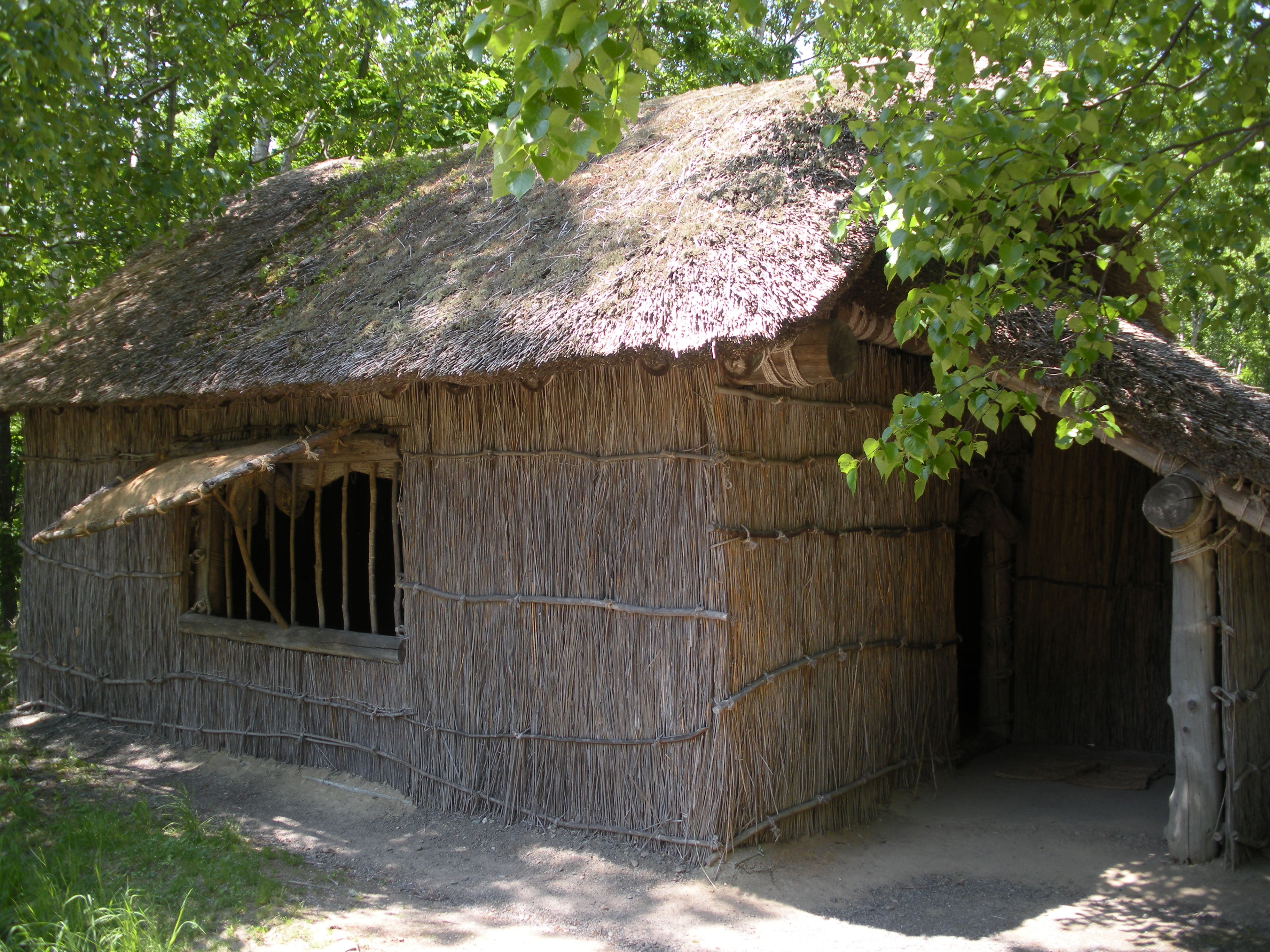 Hokkaido Pioneer cottage